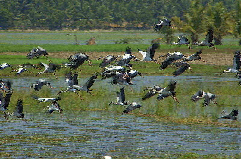 Anastomus oscitans, Asian Openbill Stork These birds were happily having their food. When the farmer saw me running with my Camera to take a shot, he threw a stone at the birds. I was really angry with the farmer. But then he said these birds spoil his crops every year.Open Bill Storks